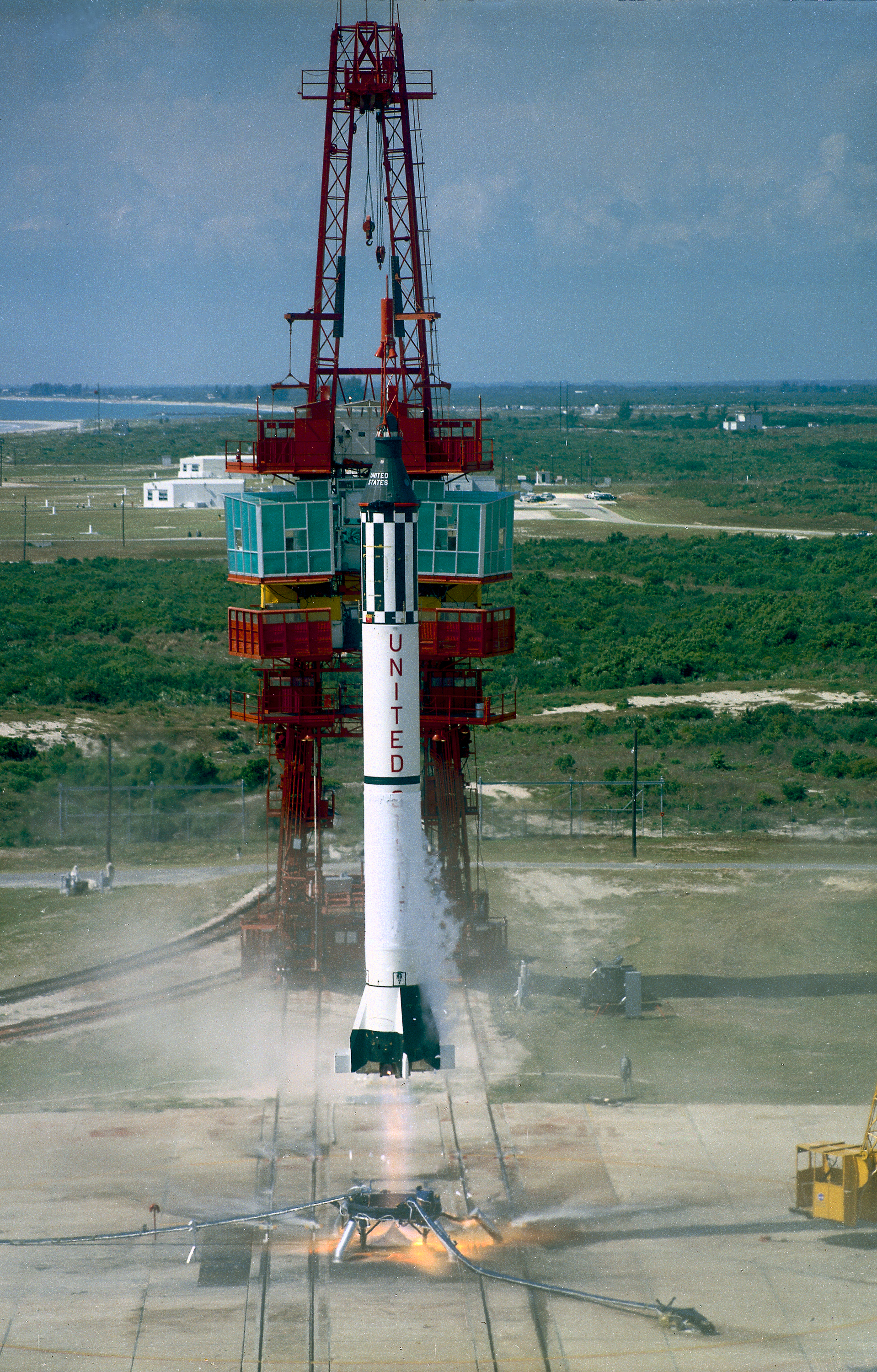 The launch of flight Mercury-Redstone 3 (MR-3), Freedom 7. MR-3 placed the first American astronaut, Alan Shepard, into space on May 5, 1961.